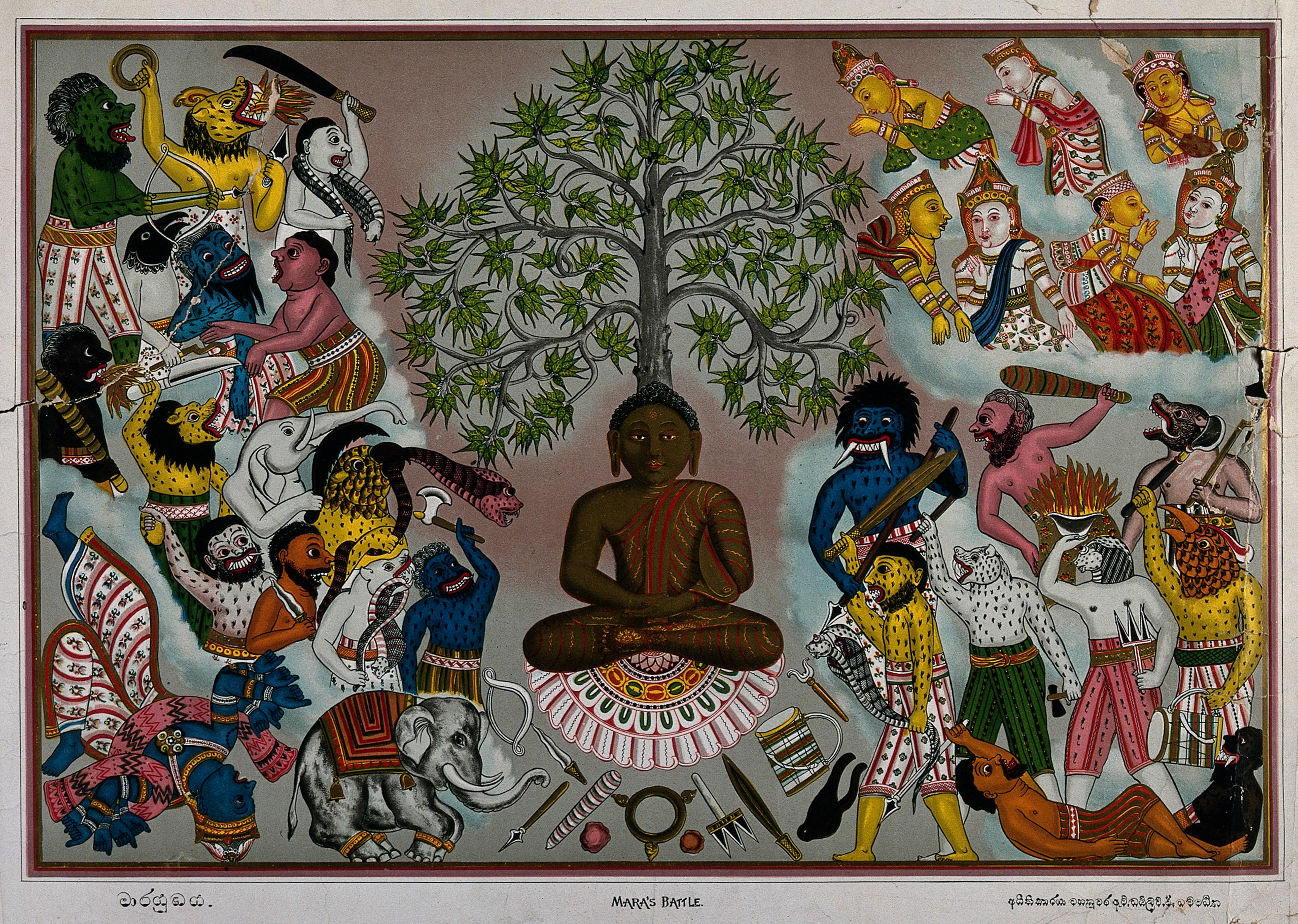 Buddha, resisting the demons of Mara, who are attempting to prevent him from attaining enlightenment, as the angels watch from above. Iconographic Collections Keywords: Tree; Symbol; Buddhist; Demon; Trees; Buddhism; Allegory; Sri Lanka; Angels